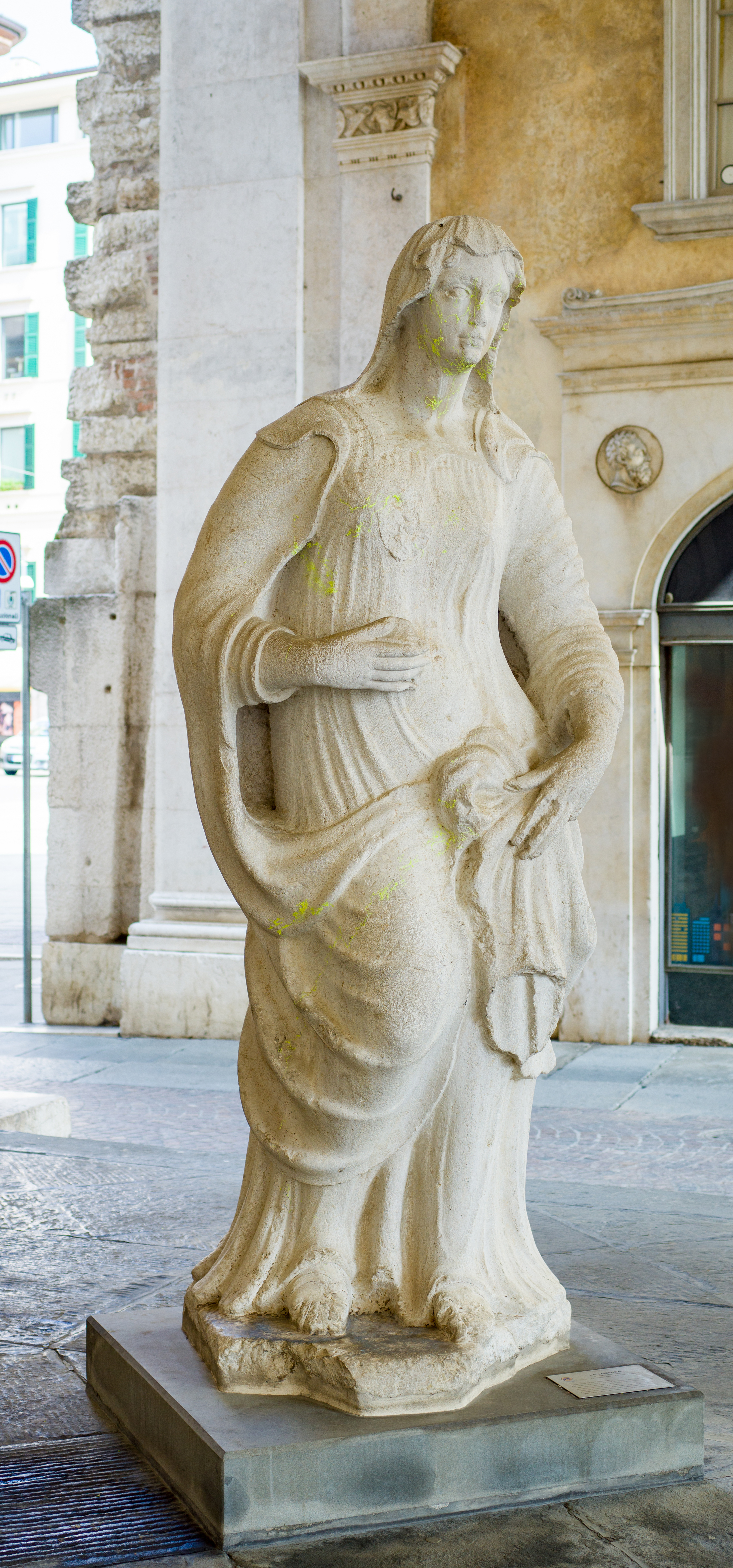 Lodoiga (Ludovica) white marble talking renaissance statue in the Palazzo della Loggia) palace in Brescia.